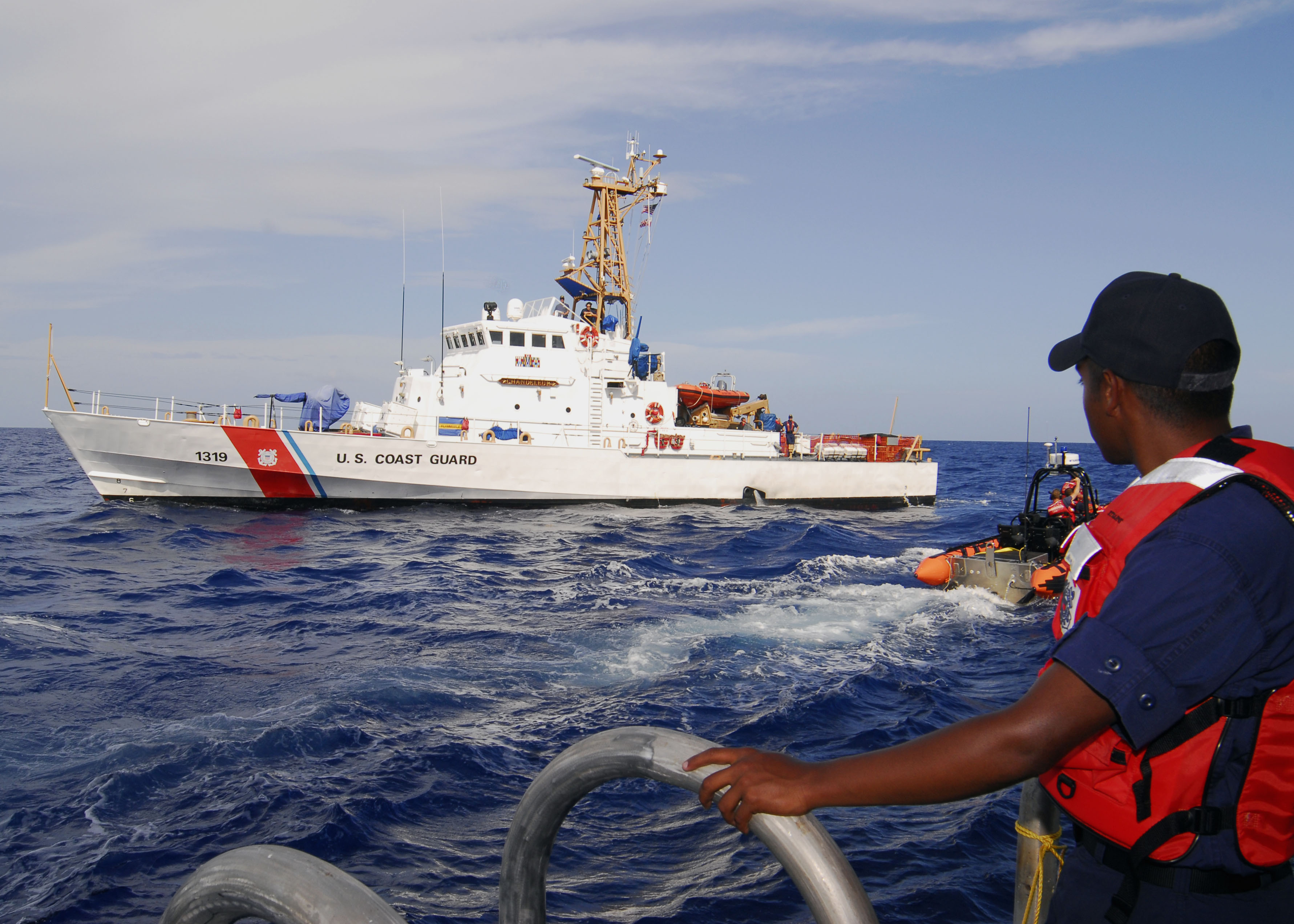 From the Side Door (For Release) GULF OF MEXICO – Petty Officer 3rd Class Suren Chandrasena, a boatswain’s mate, watches from the side port door as Coast Guard Cutter Bertholf’s Over-The-Horizon small boat departs to receive personnel from Coast Guard Cutter Chandeleur, June 18, 2008. Coast Guard, U.S. Southern Command and Joint Interagency Task Force personnel came onboard Bertholf to tour the Coast Guard’s newest cutter and learn about its capabilities. U.S. Coast Guard photo by Petty Officer 3rd Class Michael Anderson